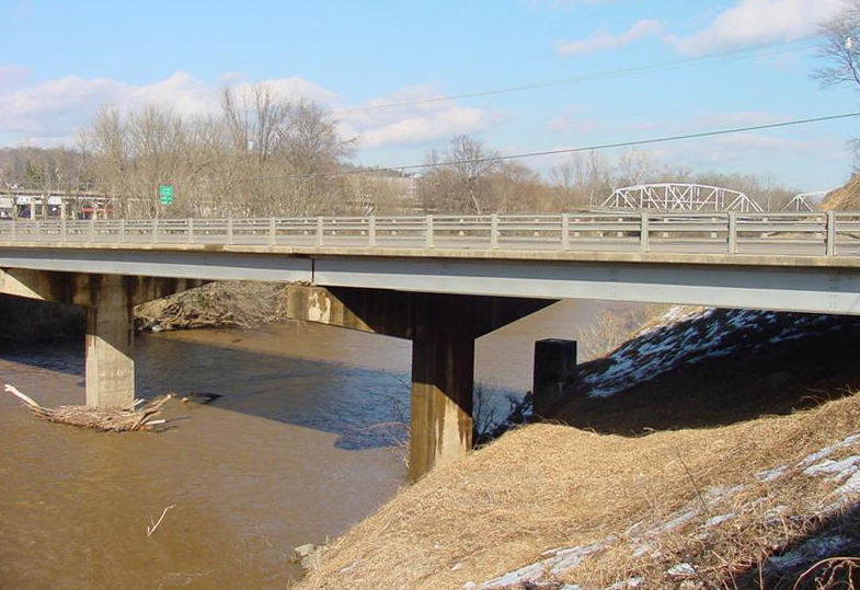 The Yadkin River at Elkin, North Carolina